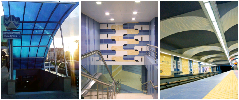 Mladost metro station collage